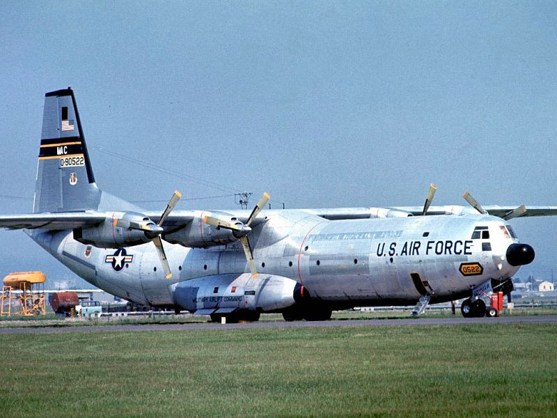 Military Air Transport Service Douglas Douglas C-133B-DL Cargomaster 59-0522, about 1960 (USAF Photo)